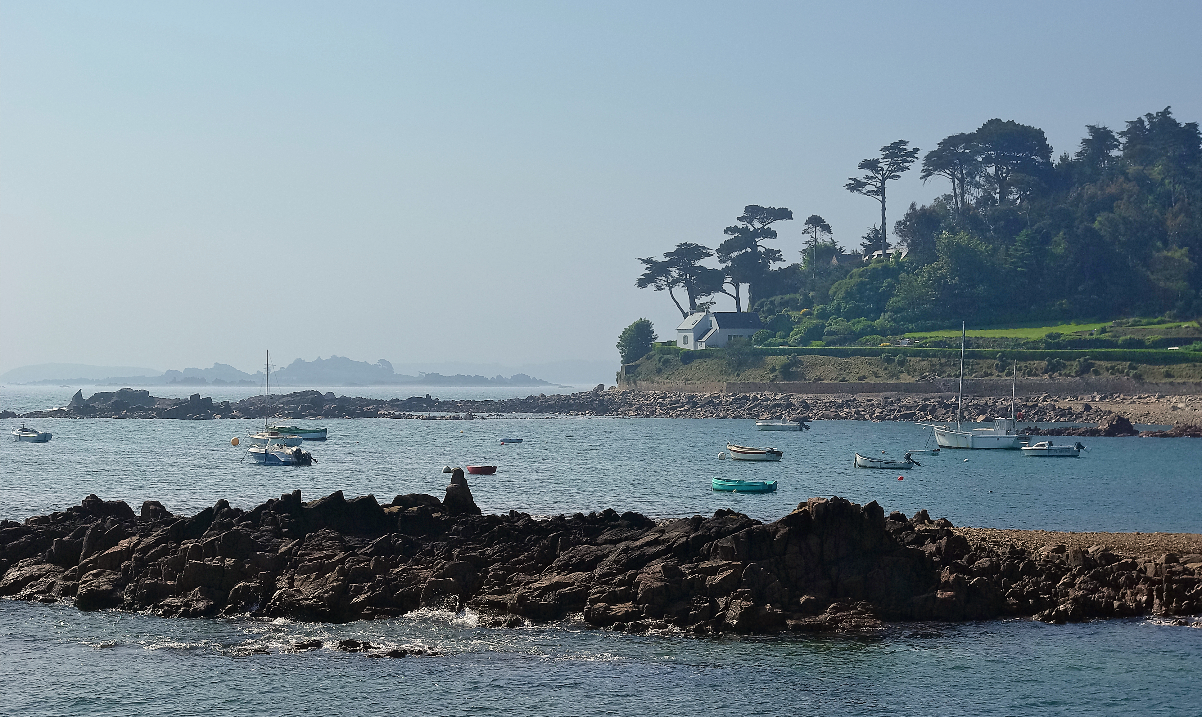 Summer haze on Pointe de l'Arcouest. Ploubazlanec, Côtes-d'Armor,France.